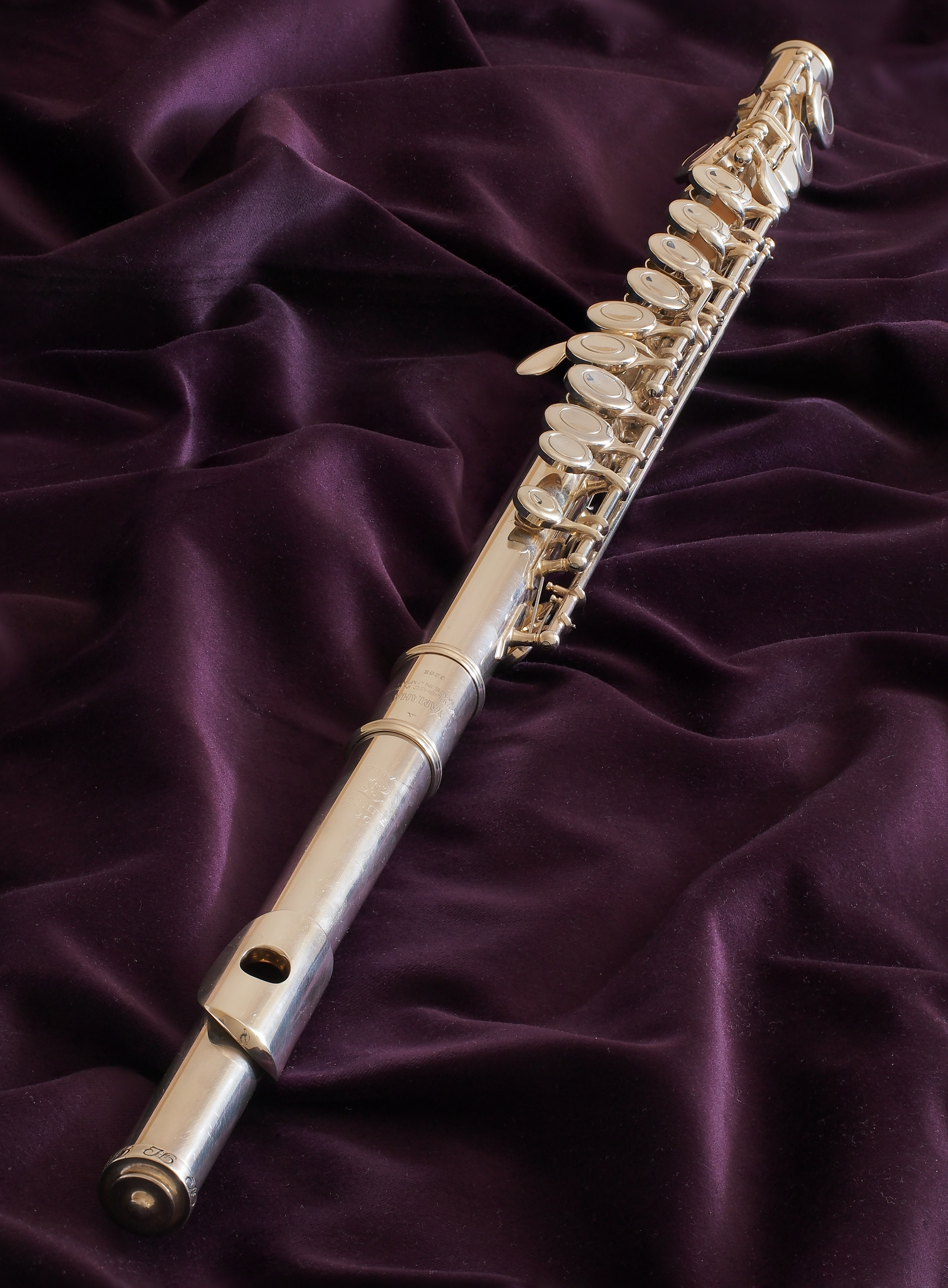 Western concert flute Yamaha. This photograph was taken with a Olympus E-P5.